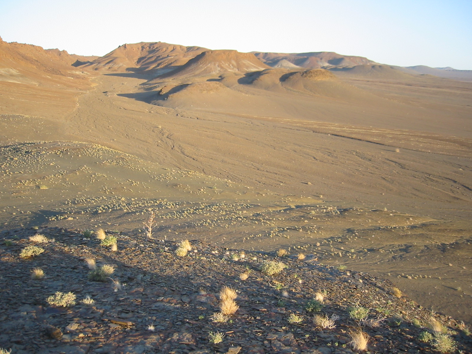 Namibian Desert: Well not really the desert, but almost. They actually grow grapes not too far from there at a farm called Aussenkehr. It's supposed to be the biggest privately owned farm in the southern hemisphere.